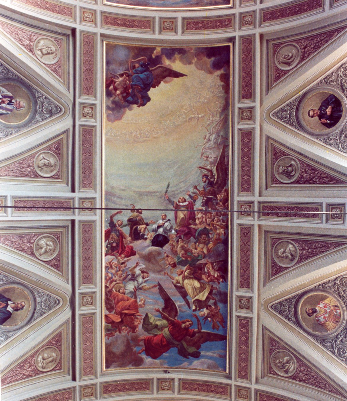 Migliavacca's Frescos and Decorations at S. Michael Arcangel, Besate.